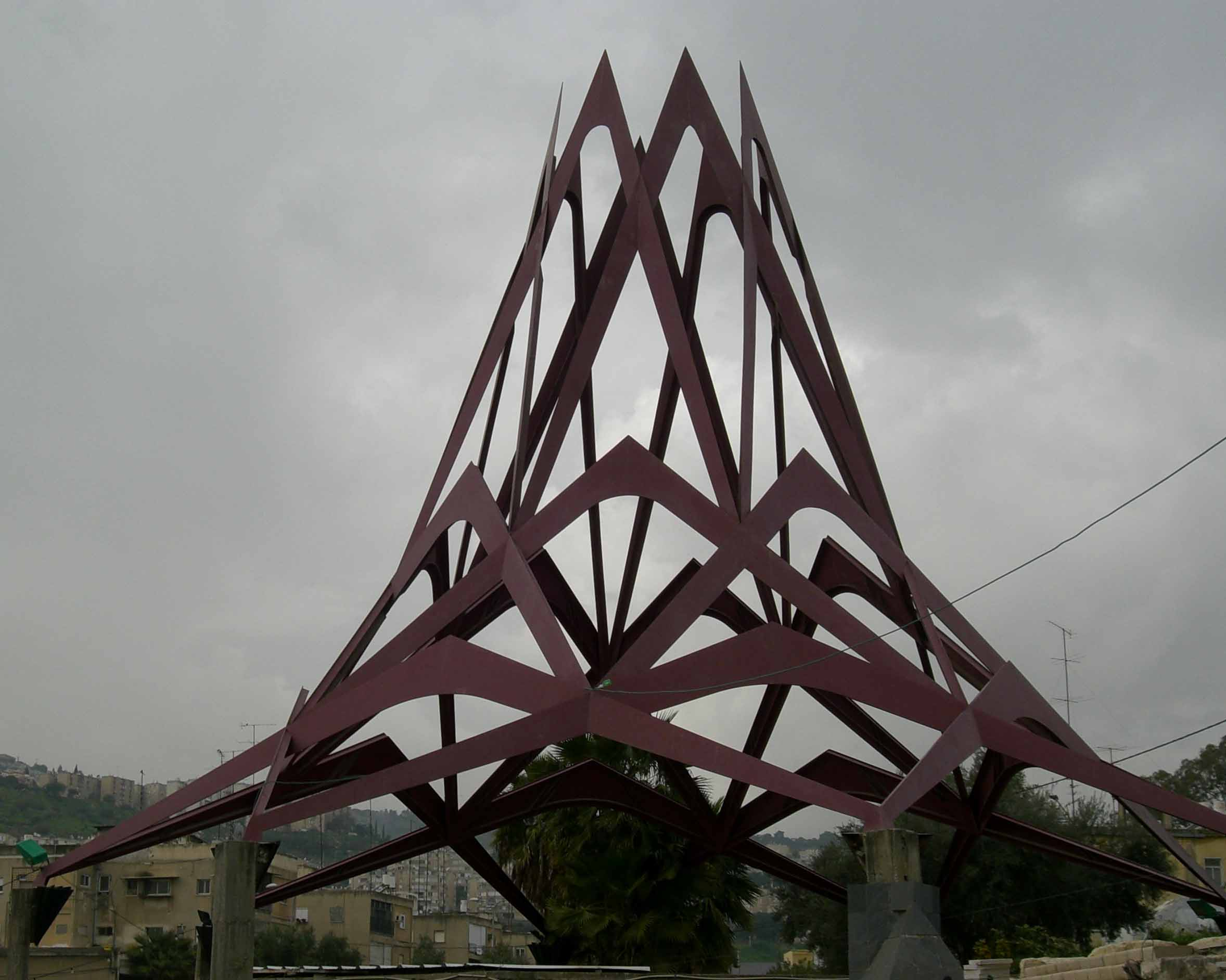 Grave of Moses Maimonides in Tiberias